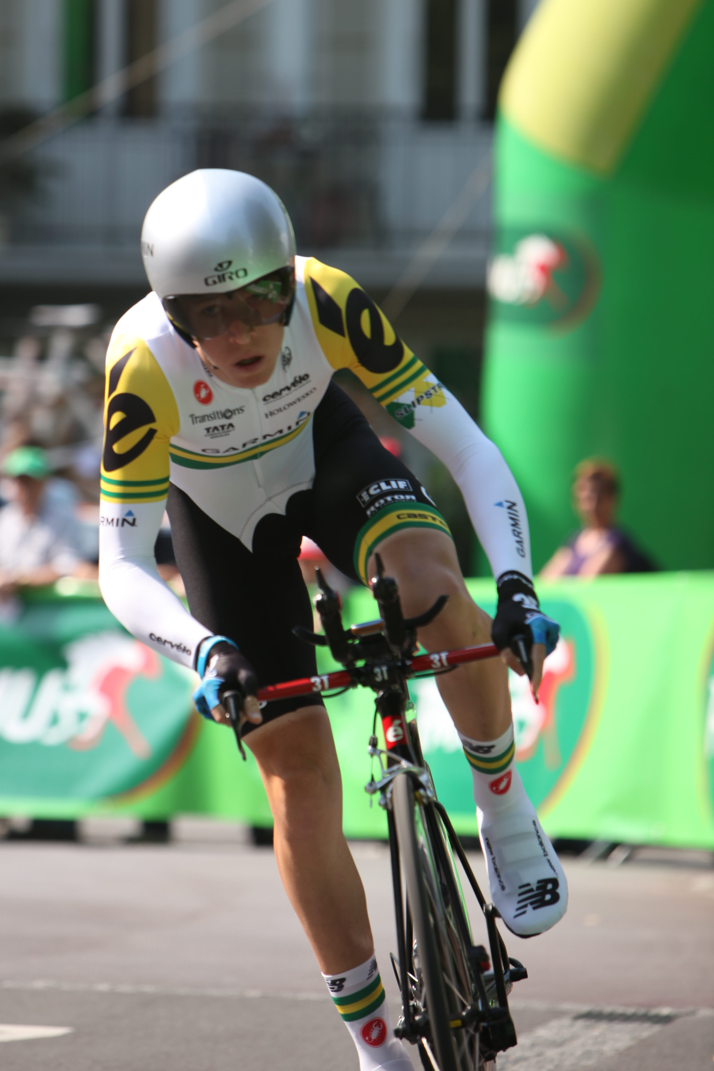 Cameron Meyer at the prologue of the Tour de Romandie 2011